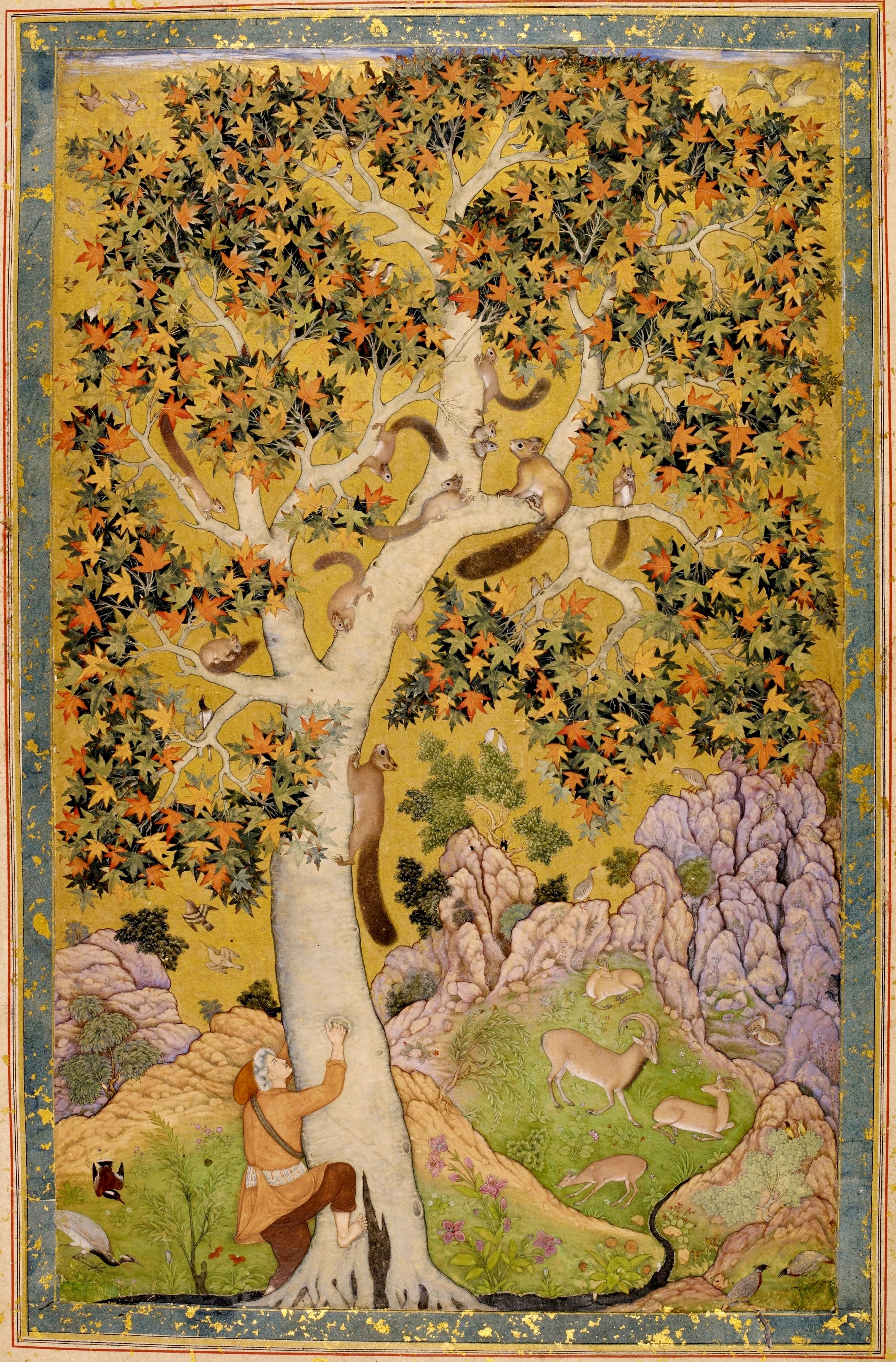 Abu'l Hasan and Mansur Squirrels in a Plane Tree, ca. 1610, India Office Library and Records, London